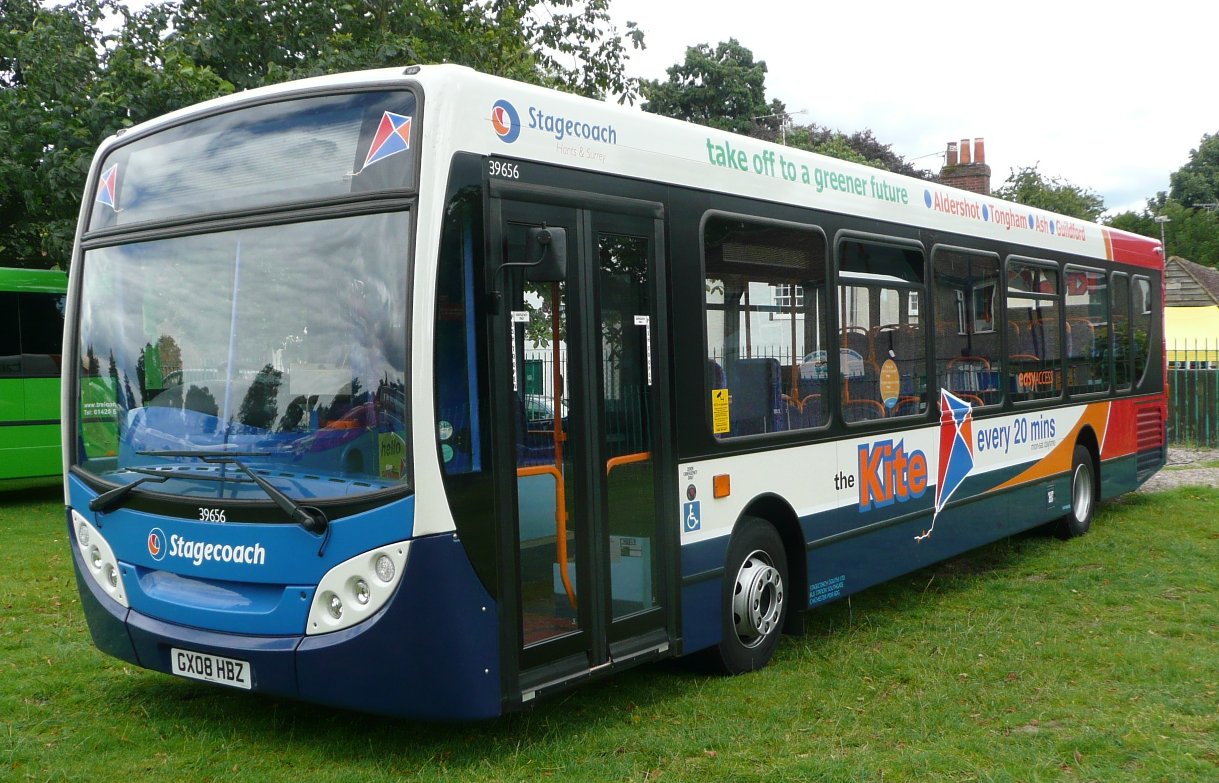 A MAN 14.240/Alexander Dennis Enviro200 Dart, which is operated by Stagecoach in Hants & Surrey, branded for route 20 or "The Kite". The bus was new in April/May 2008, and is seen at the Alton Bus Rally in July that year.